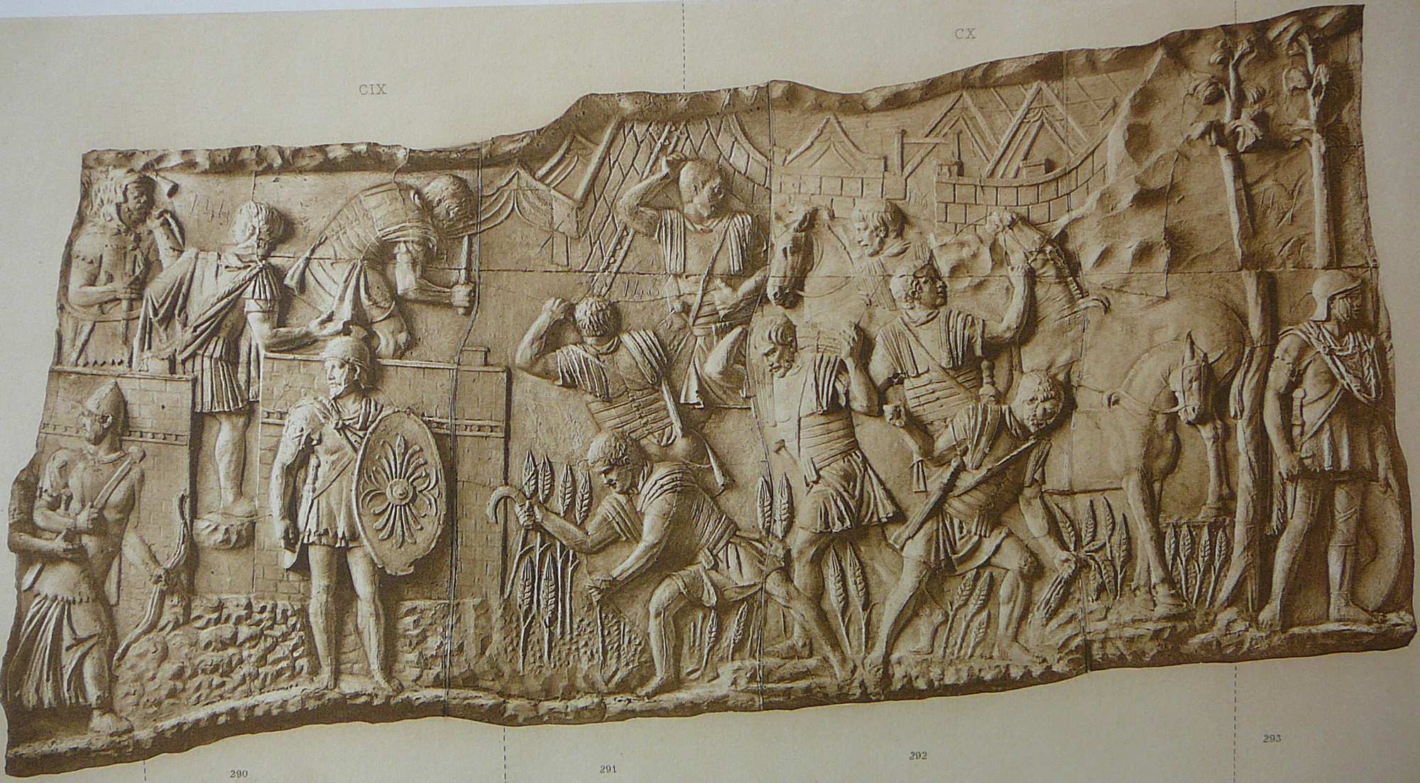 Troops entering camp (scene CIX); Roman legionaries foraging (scene CX)